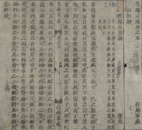 Written in 1010 by Ly Thai To - the founder of Ly dynasty of Vietnam - when he decided to make Dai La the capital(later renamed Thang Long, as known as Hanoi today).